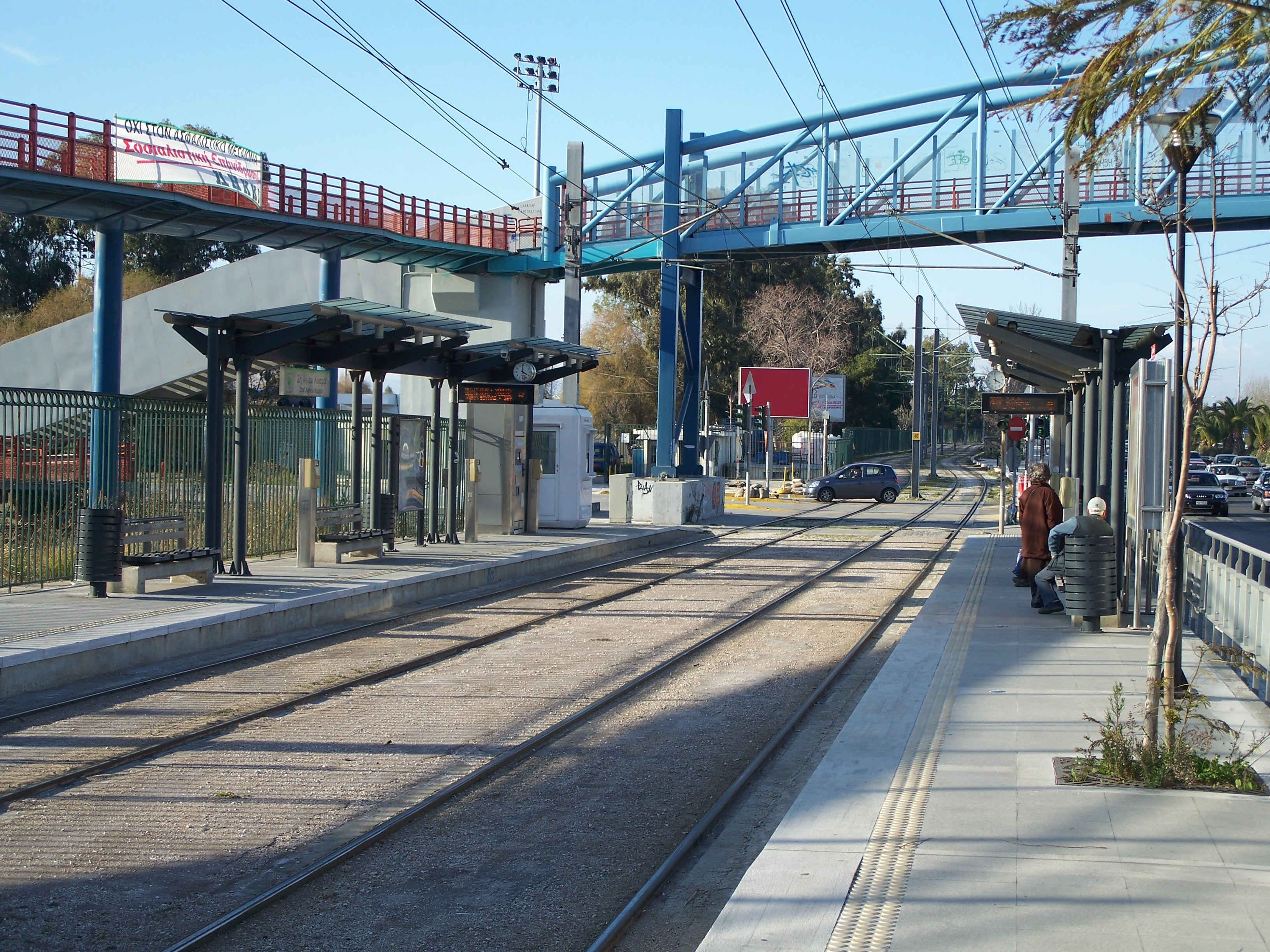 2nd Agiou Kosma stop of the Athens Tram system lines 2&3. Overhead the pedestrian bridge leading to the old Hellenikon airport and the Olympic stadiums there.